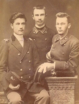 Abdurrahim bey Hagverdiyev with students in St. Peterburg